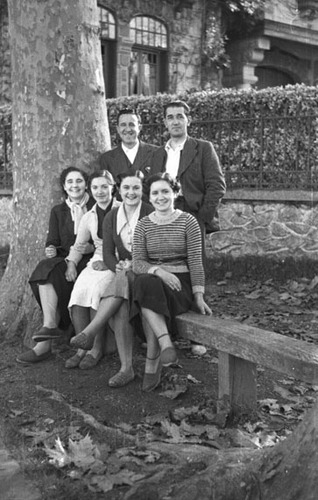 Members of the Basque national choir, Eresoinka, in Sere (Sara), France on November 13, 1937. The future mother of Plácido Domingo, Pepita Embil, is on the far left. Her voice instructor and founder of Eresoinka, bass Gabriel Olaizola, stands behind her next to the tree.